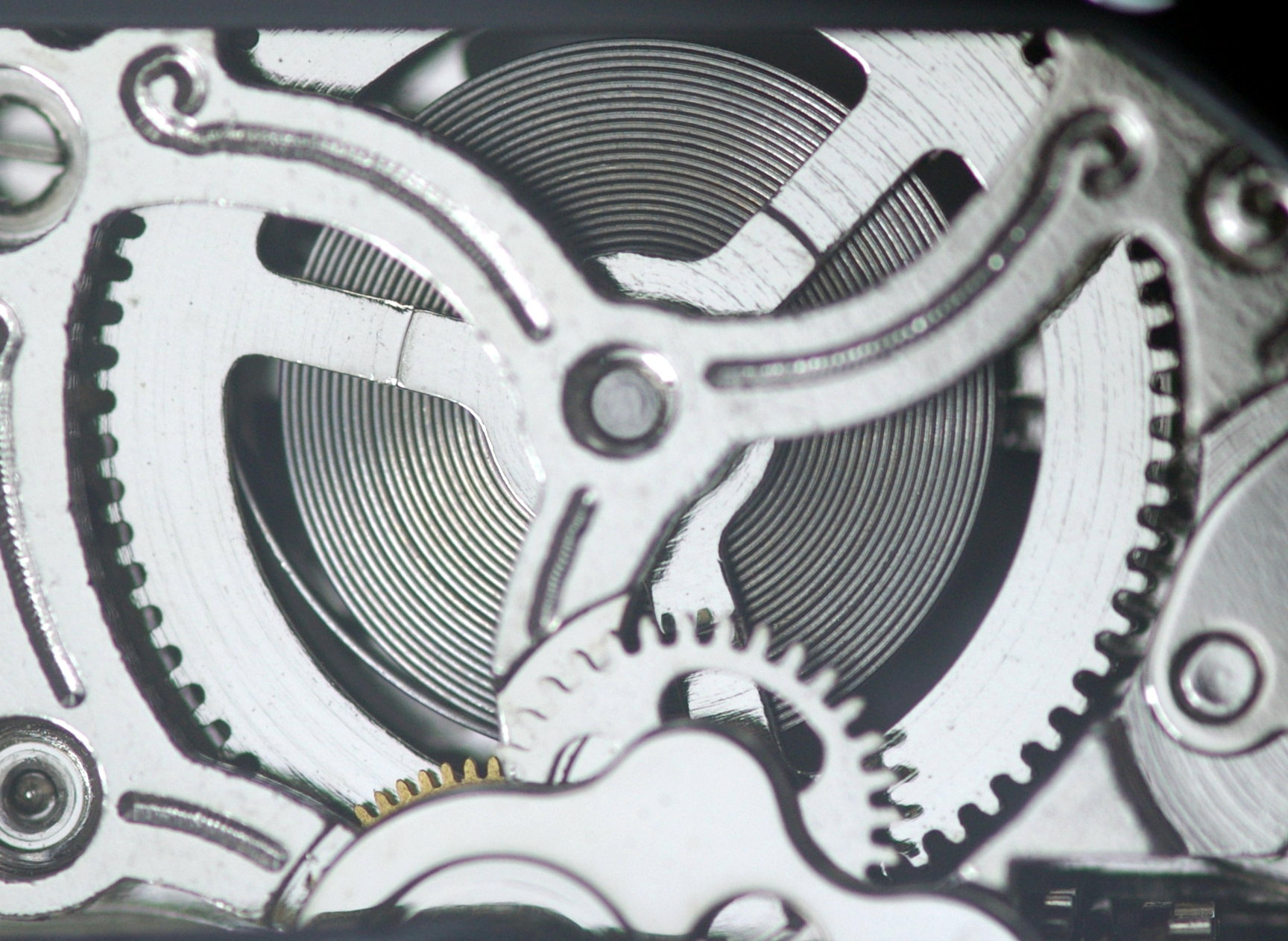 A mainspring in a Sea-Gull ST16 wristwatch movement. This watch is "automatic" or self-winding, which means that there is an eccentric weight mechanism in the watch which winds the spring using the motion of the owner's wrist. To prevent the mainspring from being overwound, which could result in the mainspring breaking, the spring is attached to the barrel which contains it with an expansion spring "bridle" device. When the watch is fully wound, further winding pulls the end of the mainspring bridle loose and it just slides along the barrel wall, so the mainspring can't be broken by overwinding. This photo is taken through the face of a skeleton watch, as seen in File:Automatic skeleton watch.jpg. A similar spring uncoiled is seen File:Mainspring Chinese uncoiled.jpg